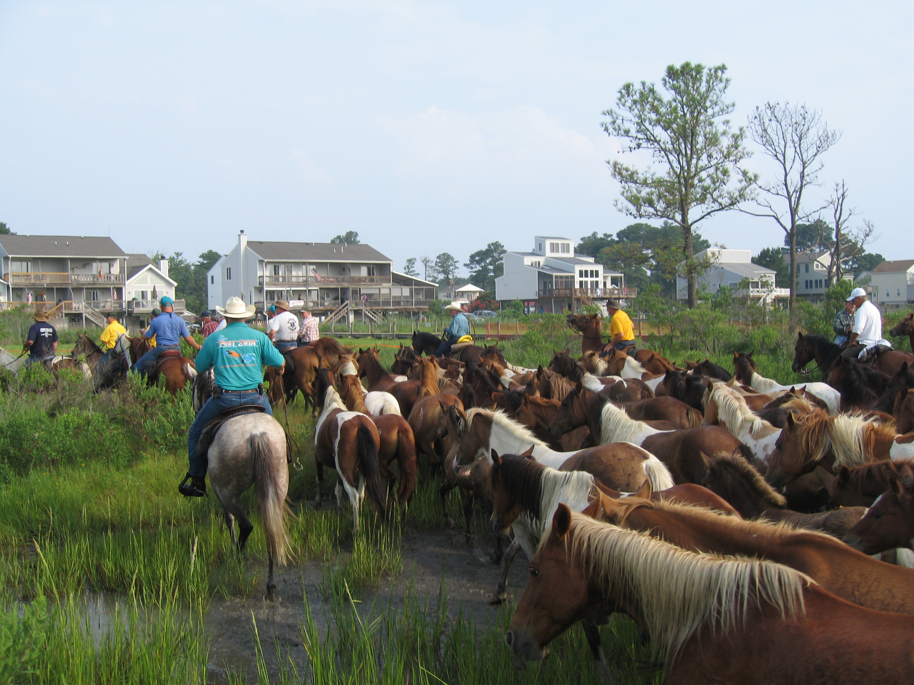 Salt Water Cowboys driving Chincoteague Ponies towards Pony Swim Lane and onto the Veteran’s Memorial Park in Chincoteague, Virginia during the 83rd annual Pony Penning. These ponies just completed the Pony Swim across Assateague Channel from Assateague Island. This picture was taken at the Pony Landing Site on July 30, 2008.